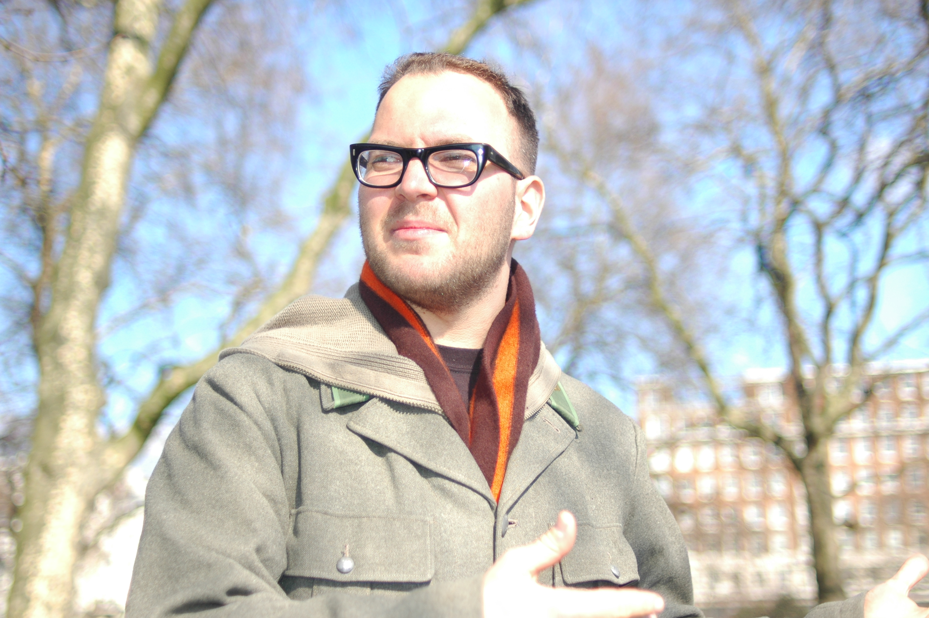 Cory Doctorow